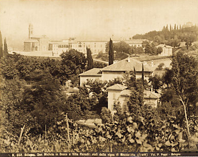 Pietro Poppi (1833-1914) - "Bologna - View of San Michele in Bosco and Villa Ravadin". Catalogue # 552.